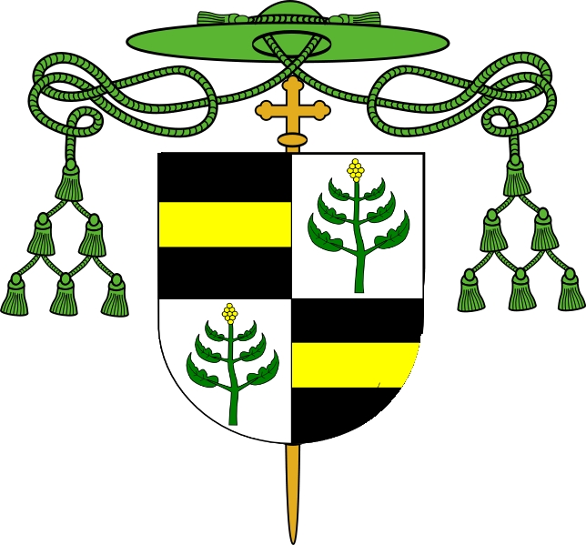 Coat of arms of Jan Lebeda, Auxiliary Bishop of Prague 1988-1991